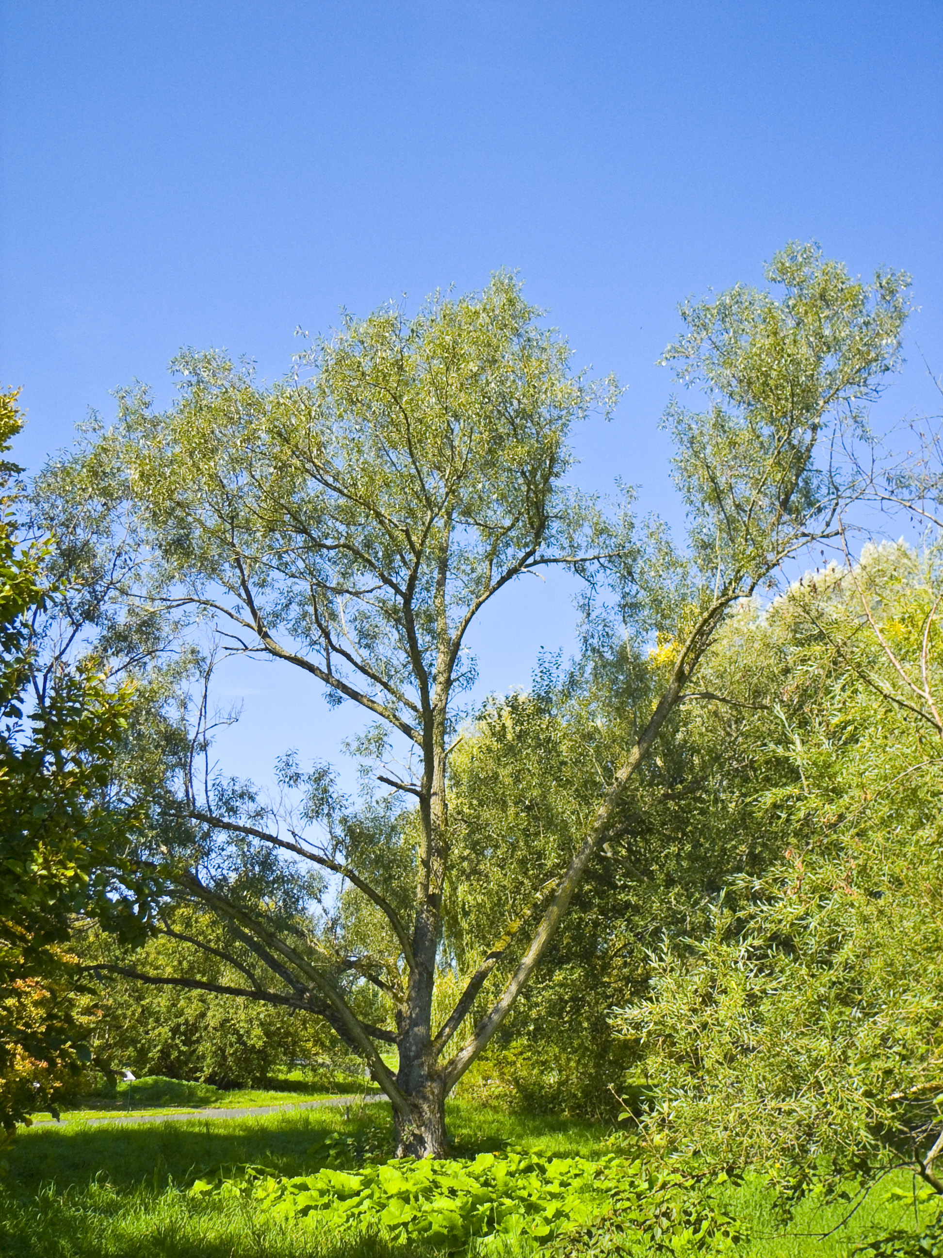 Crack Willow (Salix fragilis) in the New Botanical Garden Marburg, Hesse, Germany